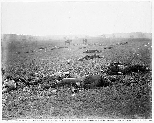 Harvest of Death